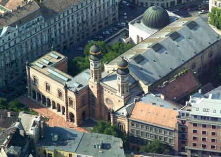 Synagogue, Erzsébetváros, Budapest, Hungary, aerial photography